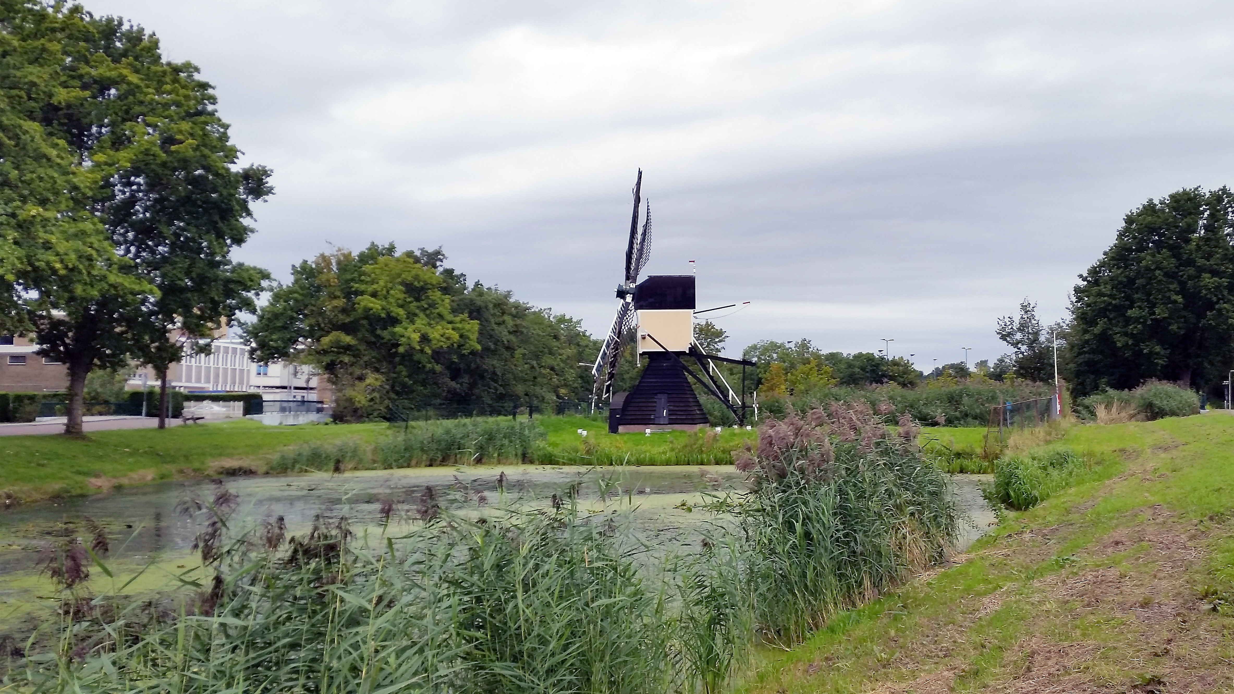 Maredijkmolen from the polder side.